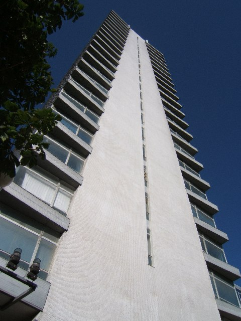 Tolworth Tower, Ewell Road, Kingston-upon-Thames, Surrey, England, seen from below